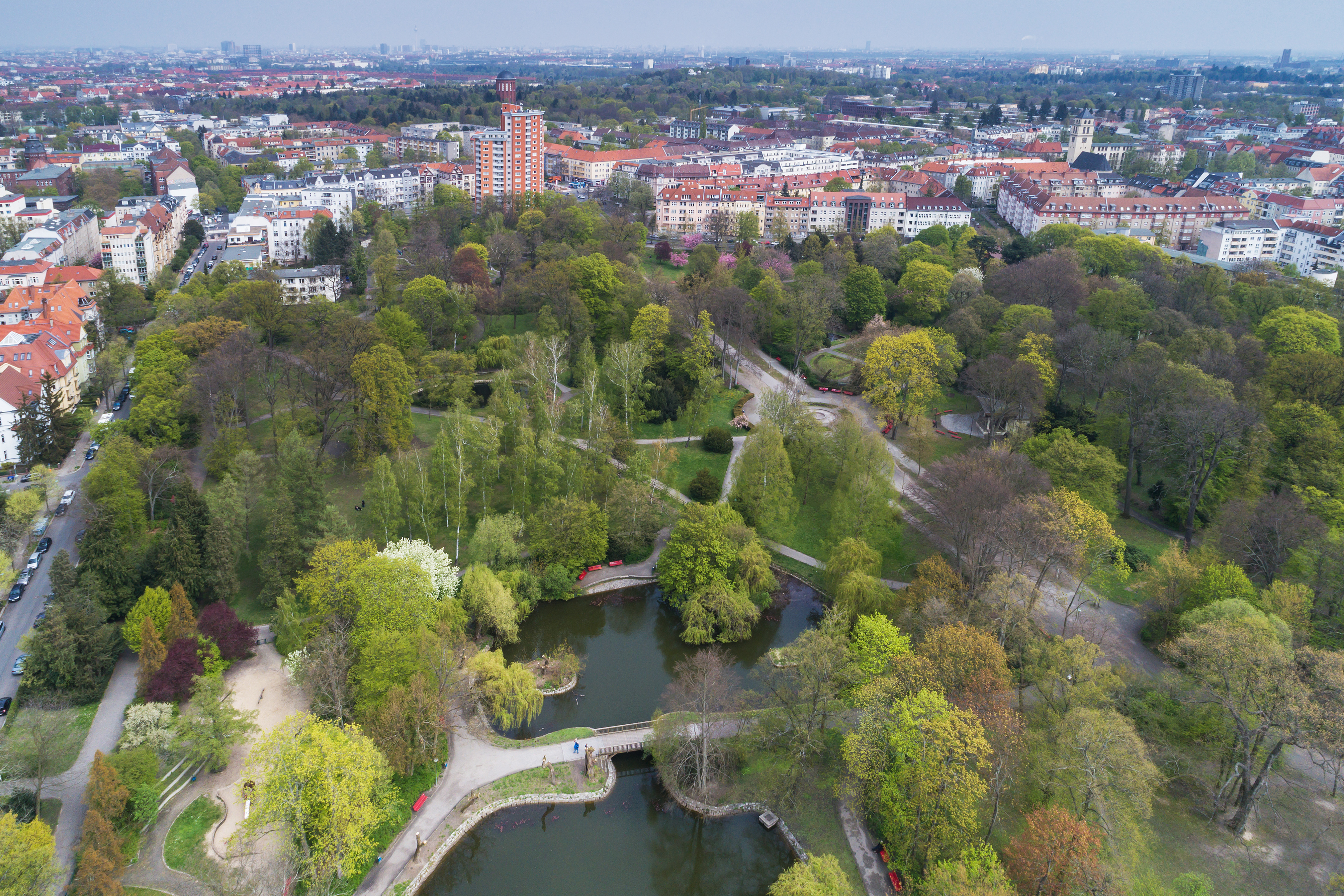 Aerial view of Stadtpark Steglitz in Berlin (Germany)